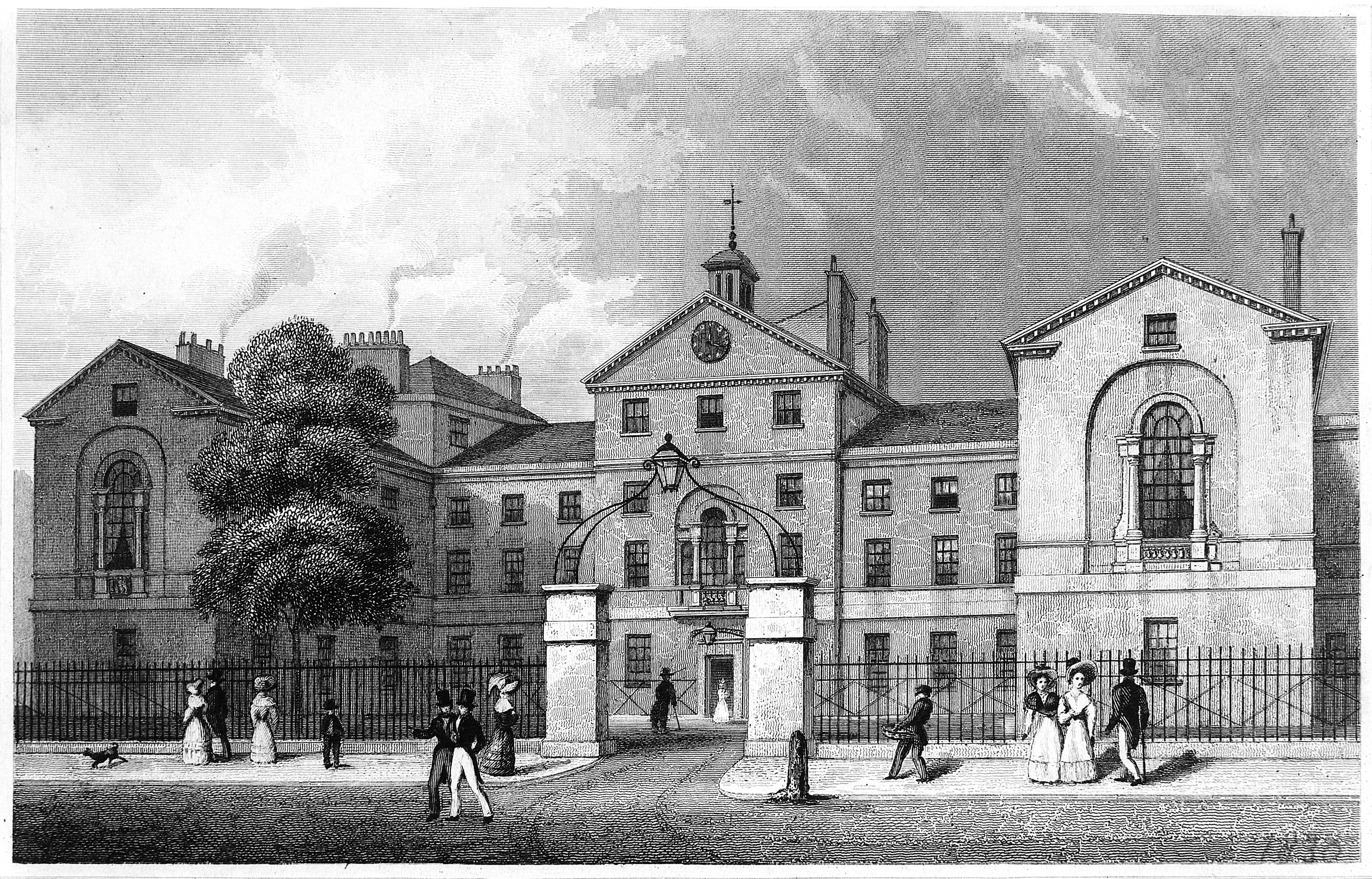 The Middlesex Hospital: seen from the south. Engraving by J. Rodgers, 1830, after T. H. Shepherd. Iconographic Collections Keywords: Thomas Hosmer Shepherd; James Paine; Institutions; John Rogers; Middlesex Hospital (London)